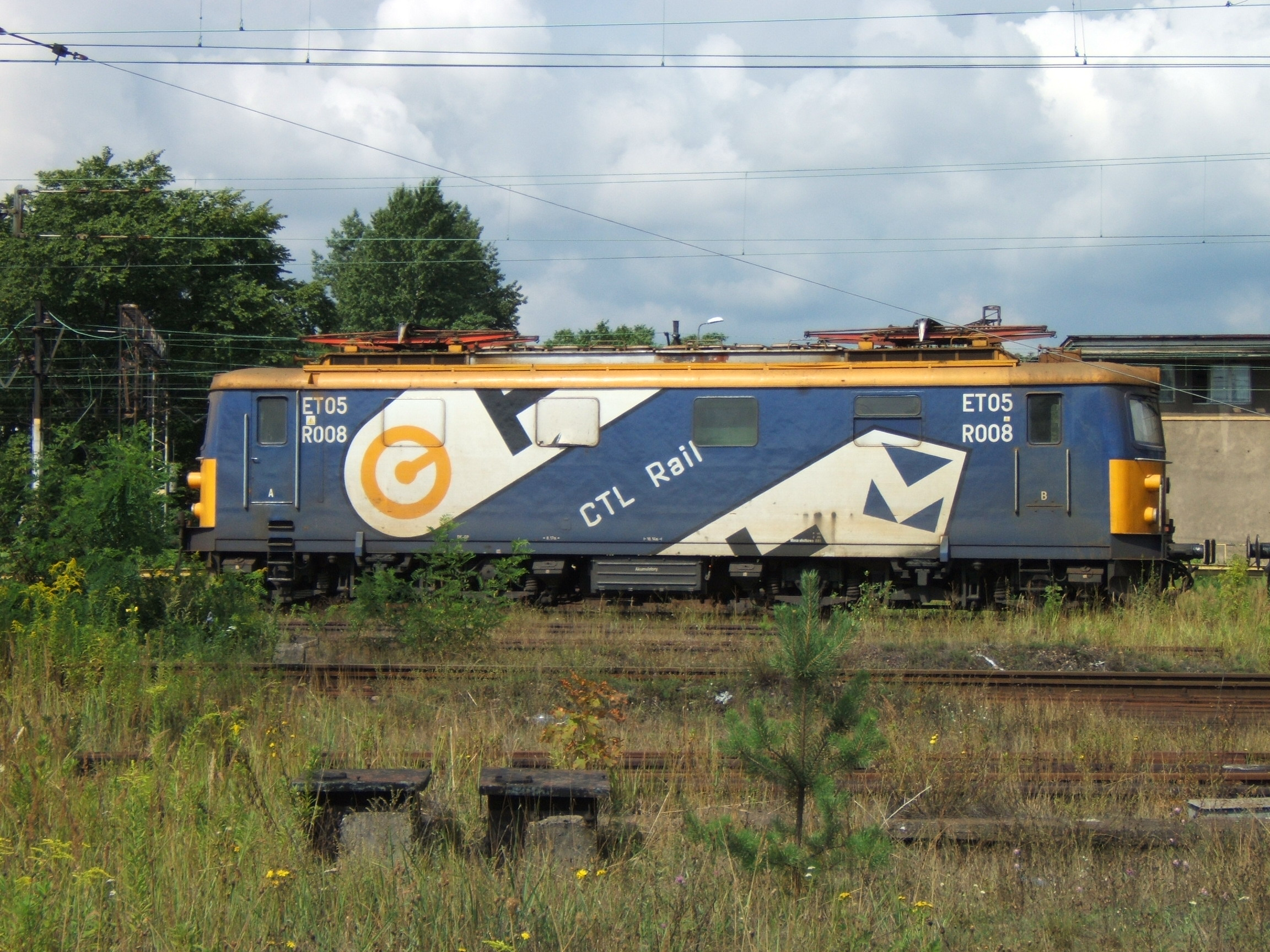 ET05-R008 (ČD class 121), property of CTL.